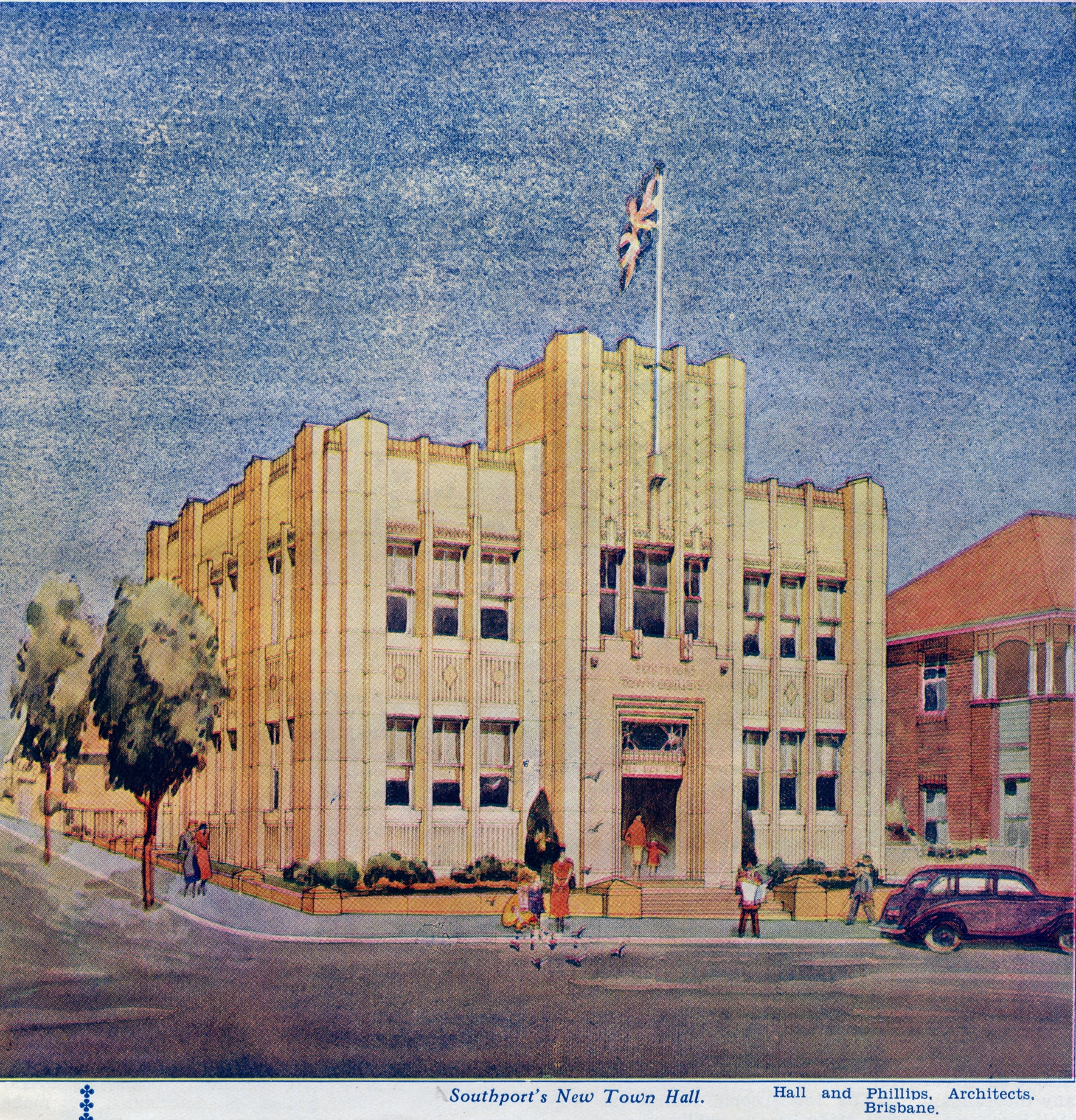 Southport Town Hall. from Illustrated advertisement from The Queenslander annual November 4 1935 page 61